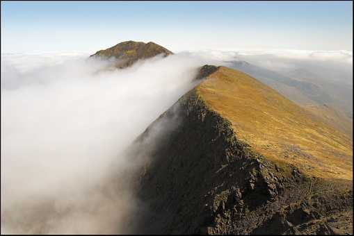 Photograph, taken from the summmit of Cnoc an Chuillinn, of the eastwards ridge from the summit of Cnoc an Chuillinn to the summit of Maolan Bui, with the small summit of Cnoc an Chuillinn East Top in the foreground, in the MacGillycuddy's Reeks